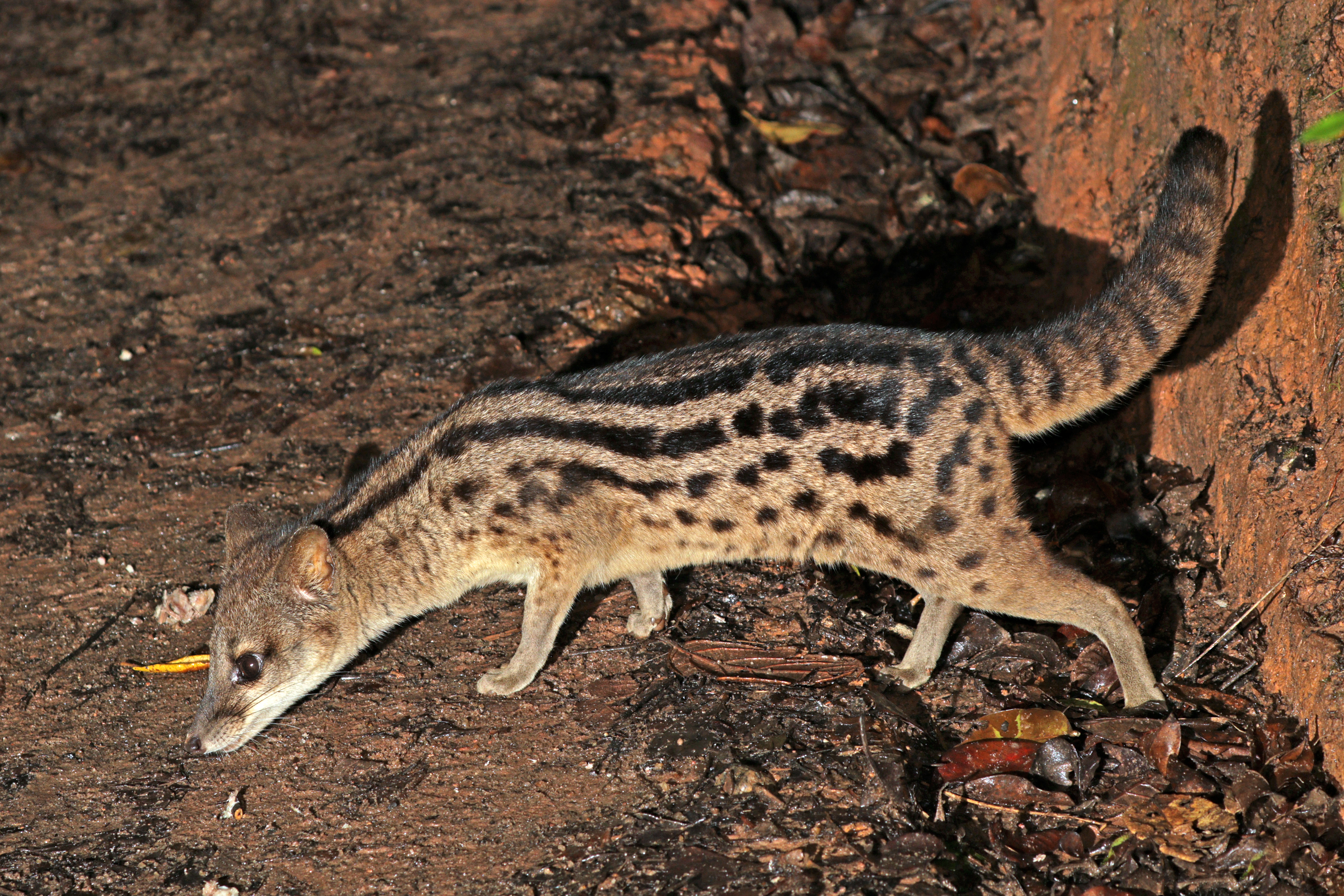 Spotted fanaloka (Fossa fossana), Ranomafana National Park, Madagascar. Still known locally as a civet.